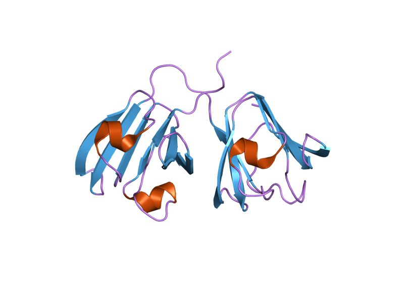 Cartoon representation of the molecular structure of protein registered with 2jdf code.